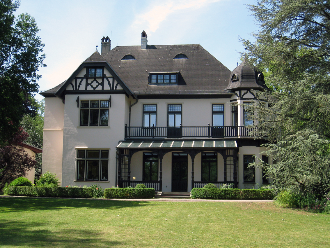 The former Landhaus Hasse (“Mansion Hasse”) in Bremen-Oberneuland (Germany). Built 1894–1896 by Eduard Gildemeister and Wilhelm Sunkel for the director of the Chocoladen-Fabrik Hachez Carl Otto Hasse.